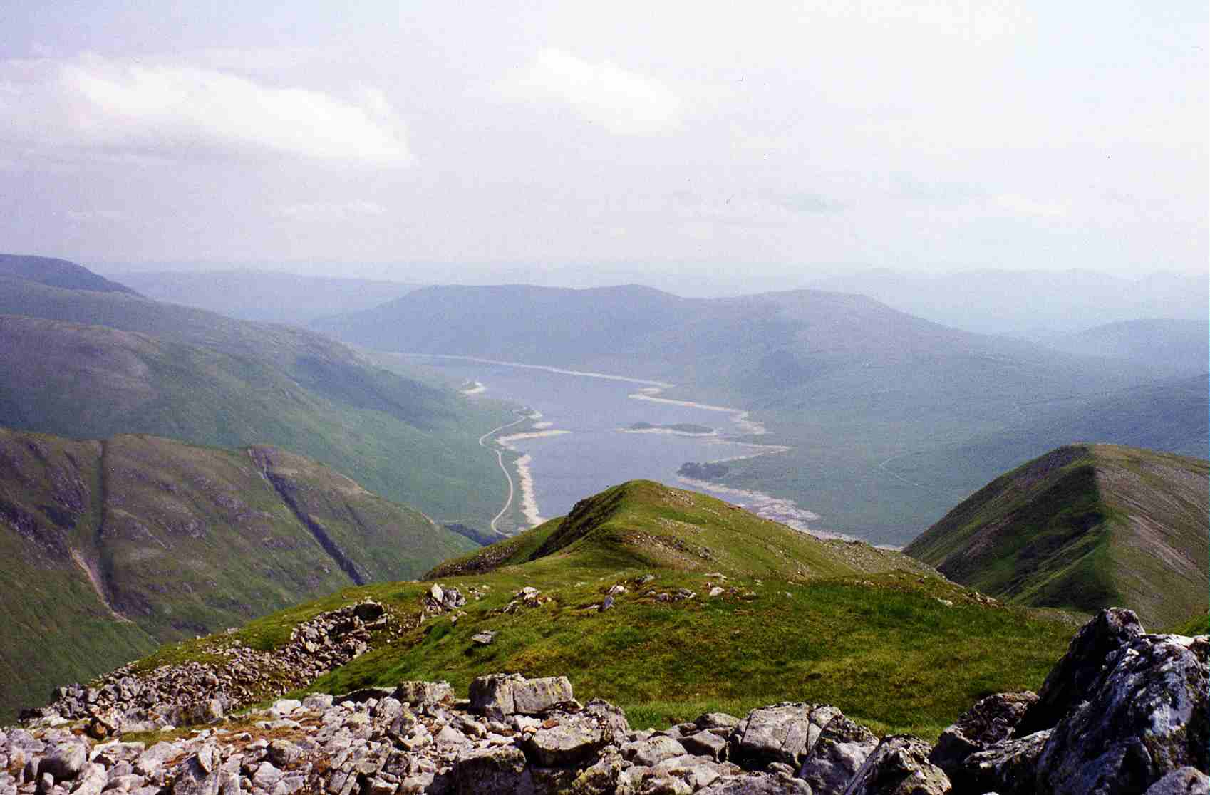 Personal picture taken by Mick Knapton